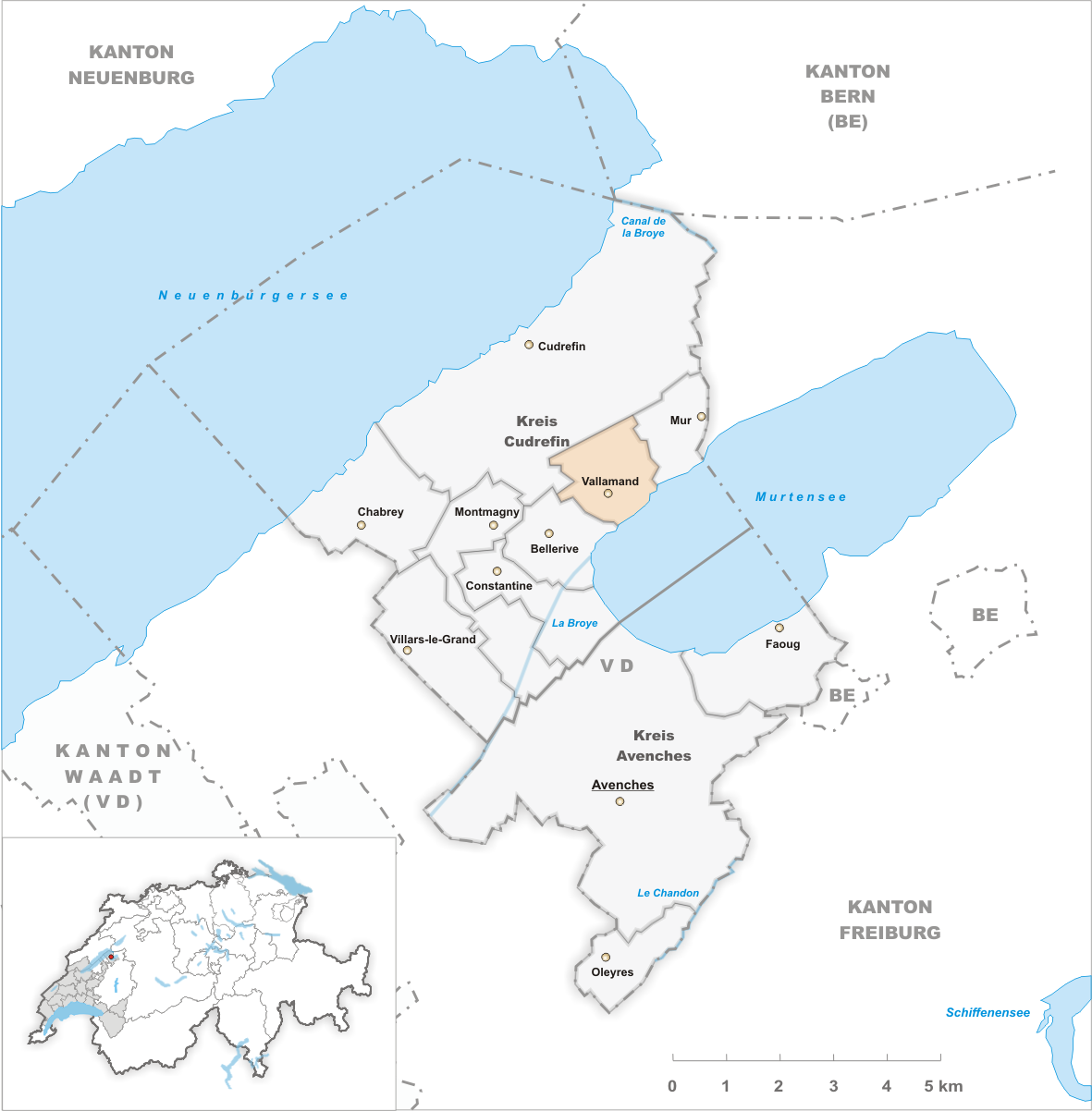 Municipality Vallamand